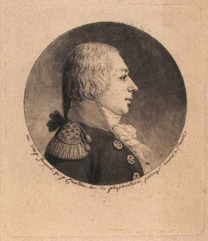 Gottsche Hans Olsen (1760-1829), Danish diplomat, poet, and theatre manager